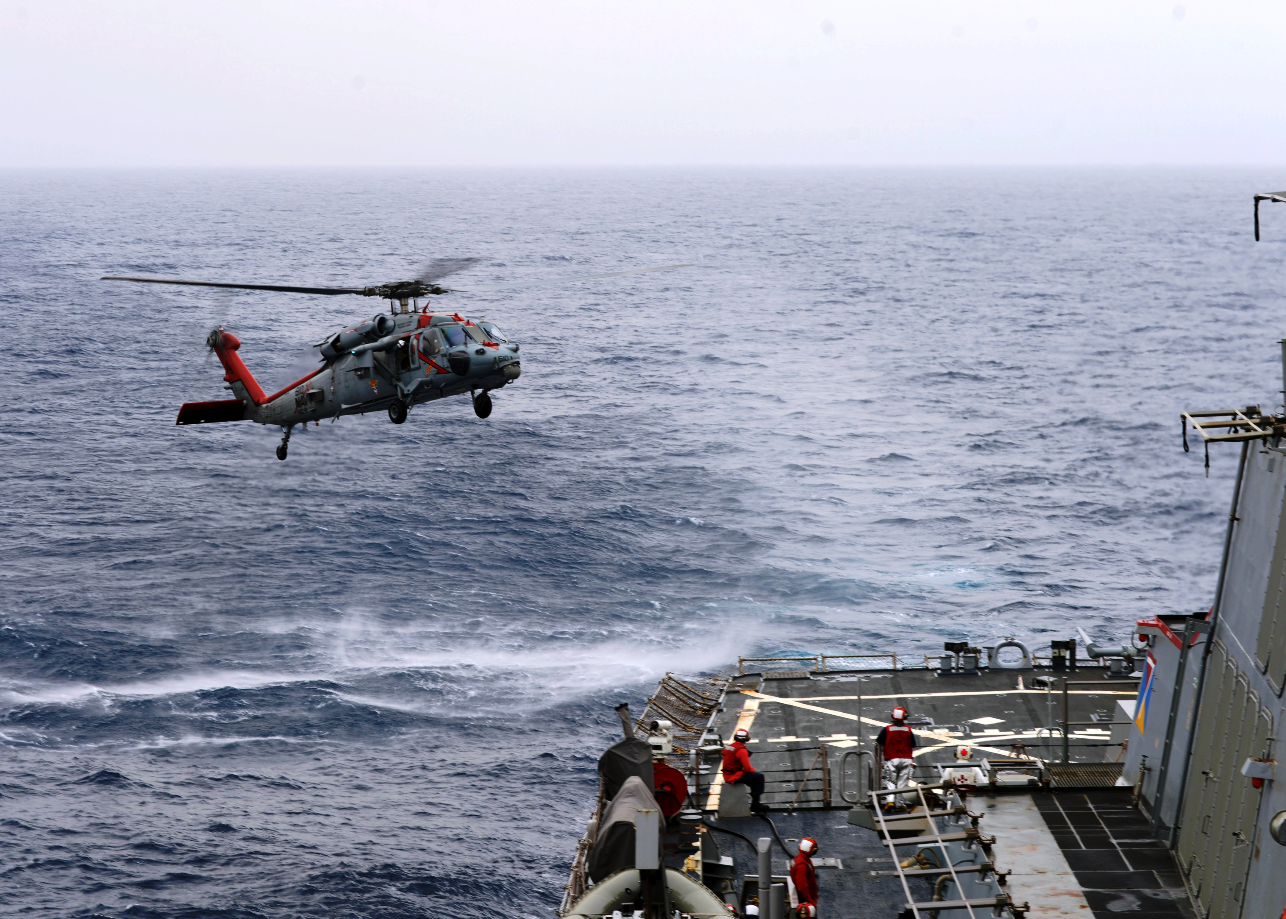 MEDITERRANEAN SEA (March 16, 2014) An MH-60S Sea Hawk helicopter assigned to Helicopter Sea Combat Squadron (HSC) 9 prepares to land on the flight deck of the guided-missile destroyer USS Ramage (DDG 61). Ramage is on a scheduled deployment supporting maritime security operations and theater security cooperation efforts in the U.S. 6th Fleet area of operations. (U.S. Navy photo by Mass Communication Specialist 2nd Class Jared King/Released) 140316-N-CH661-111